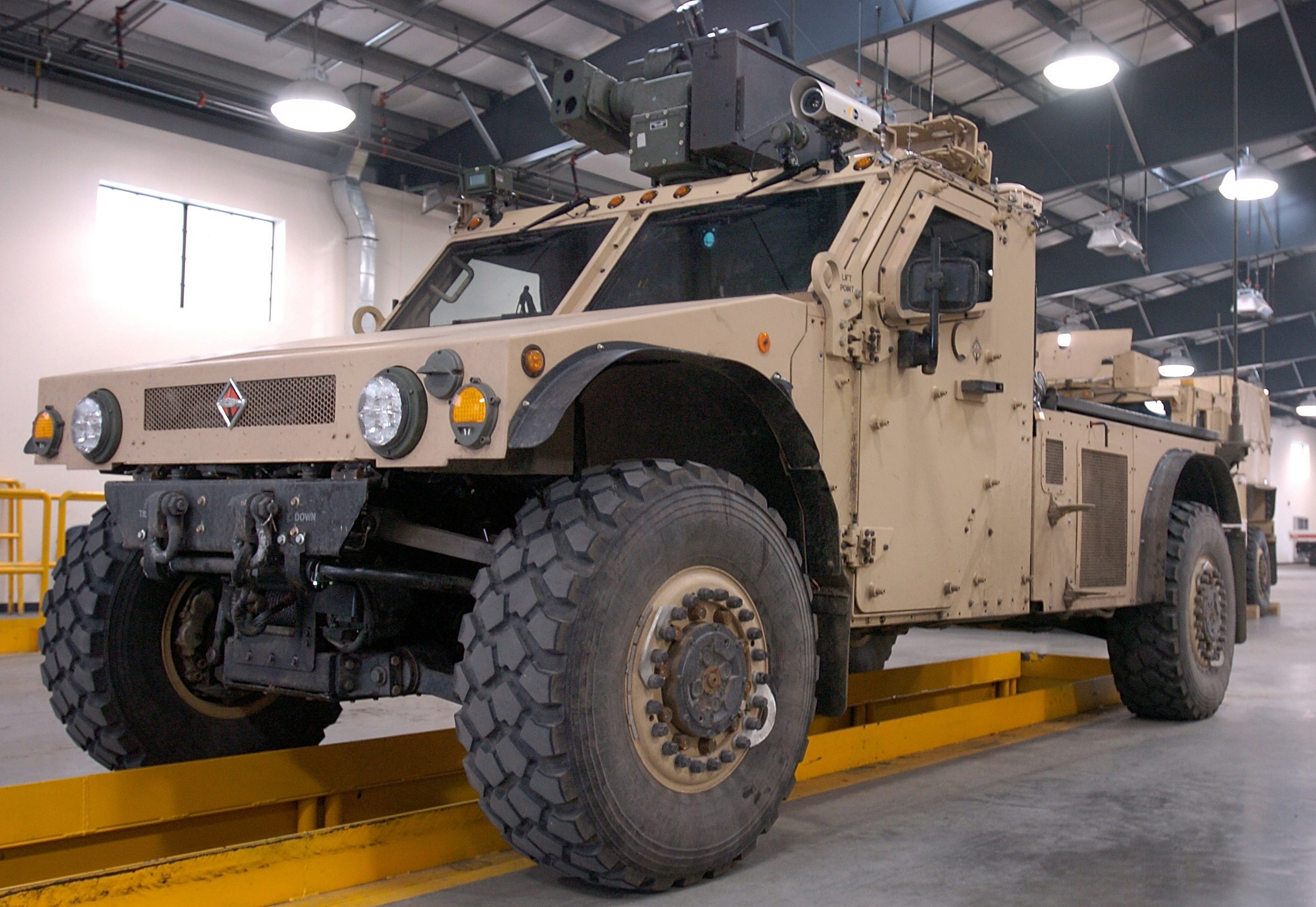 Future Tactical Truck System Utility Vehicle Demonstrator from International.